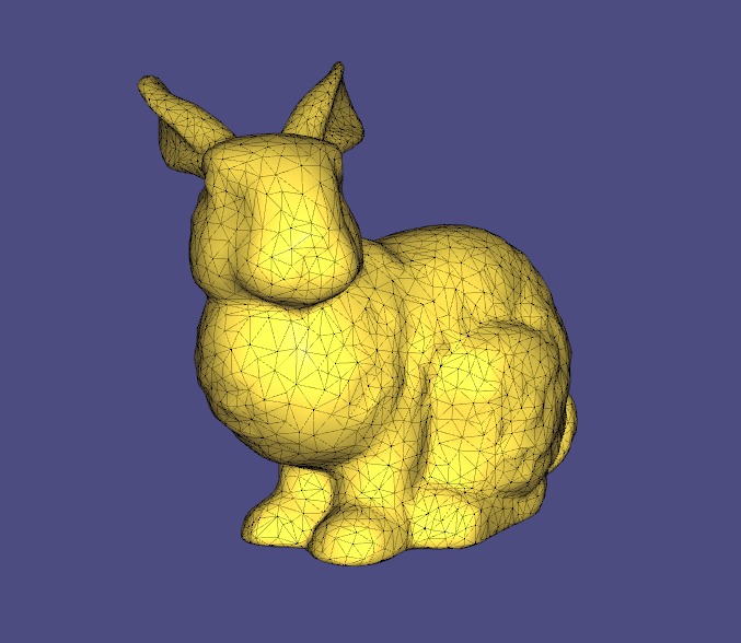 A mesh of the popular Stanford bunny.